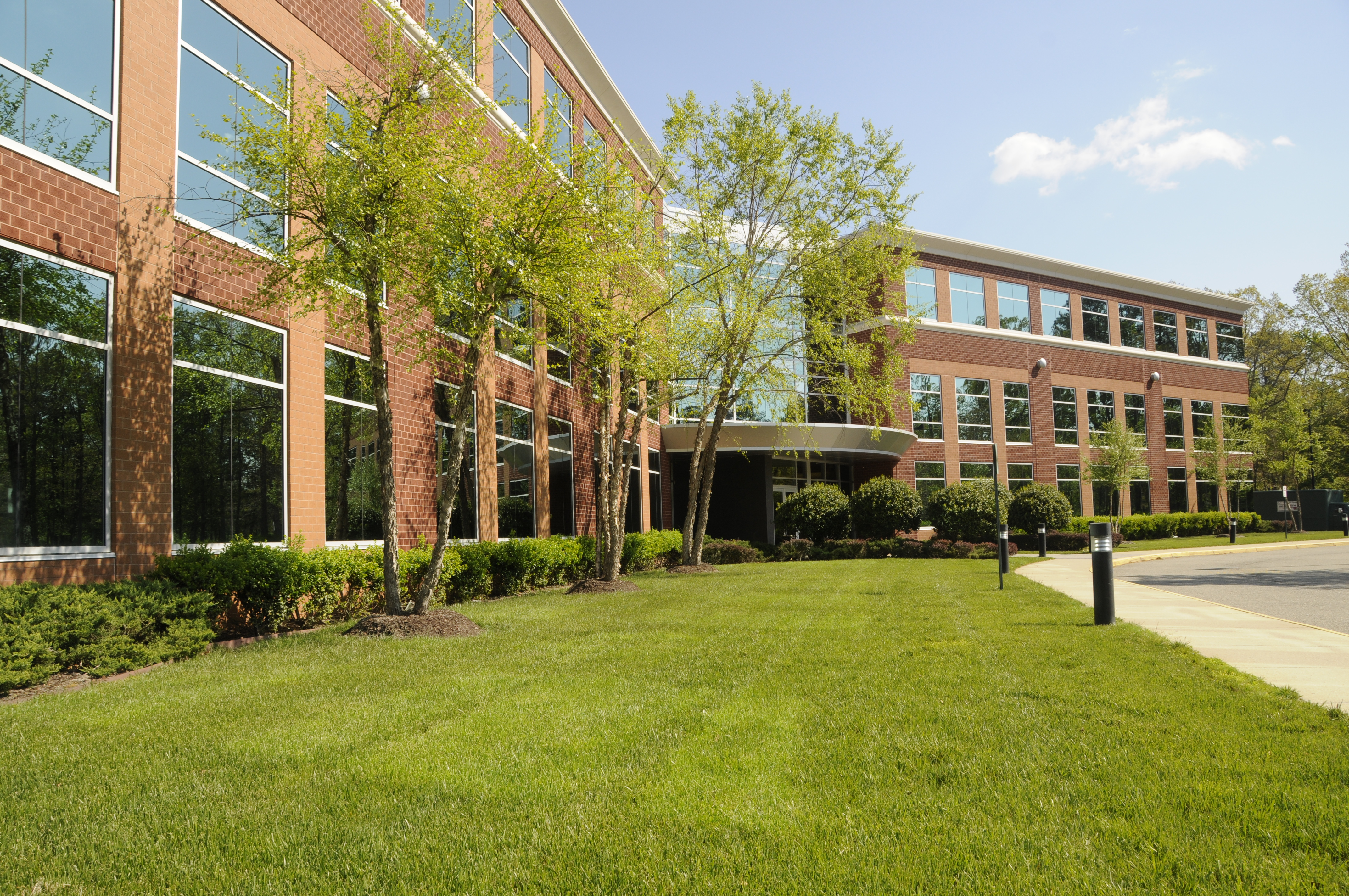 The Newport News (VA) Education Office is one of Saint Leo’s many teaching locations.